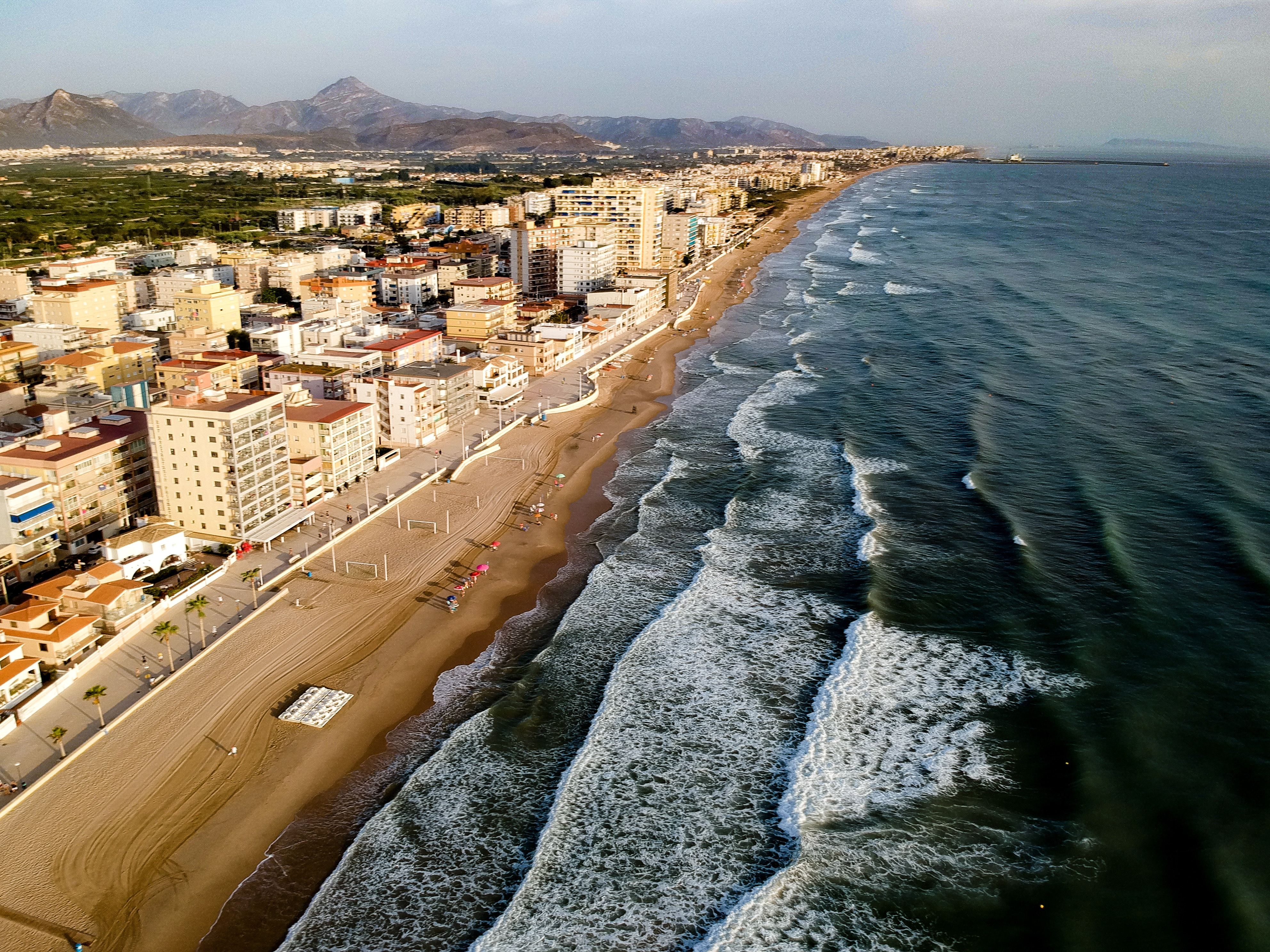 View from east on Bellrequard, Valencia, Spain